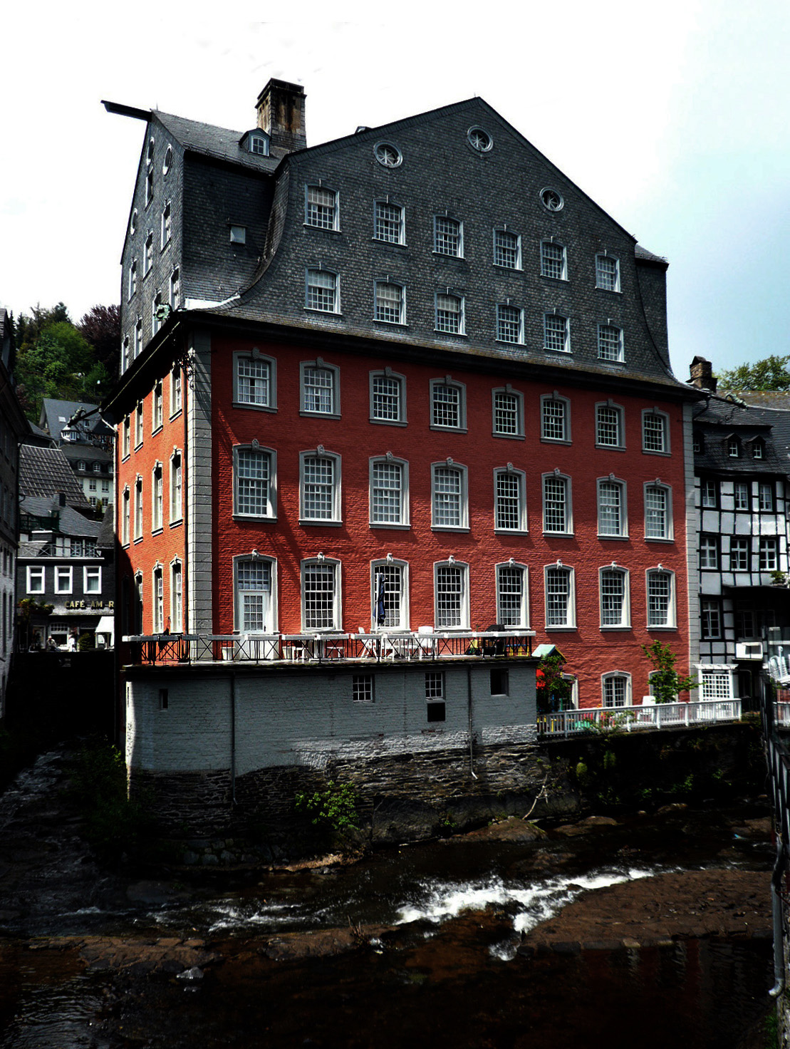 Das Rote Haus in Monschau - an der Mündung des Laufenbachs in die Rur. Es wurde um 1760 von dem Tuchverleger Johann Heinrich Scheibler erbaut und vereint Wohn- und Arbeitsräume (Kontor, Wolllager, Wollspüle, Färberei) unter einem Dach. Foto: 2008 The Red House in Monschau near Aachen - built by the cloth manufacturer Johann Heinrich Scheibler around 1760 - shows upper class domestic life. The house was not only used as a family residence, but also housed the offices and storage rooms, not forgetting the cellar with its scouring and dying rooms and their rinsing channels. 2008